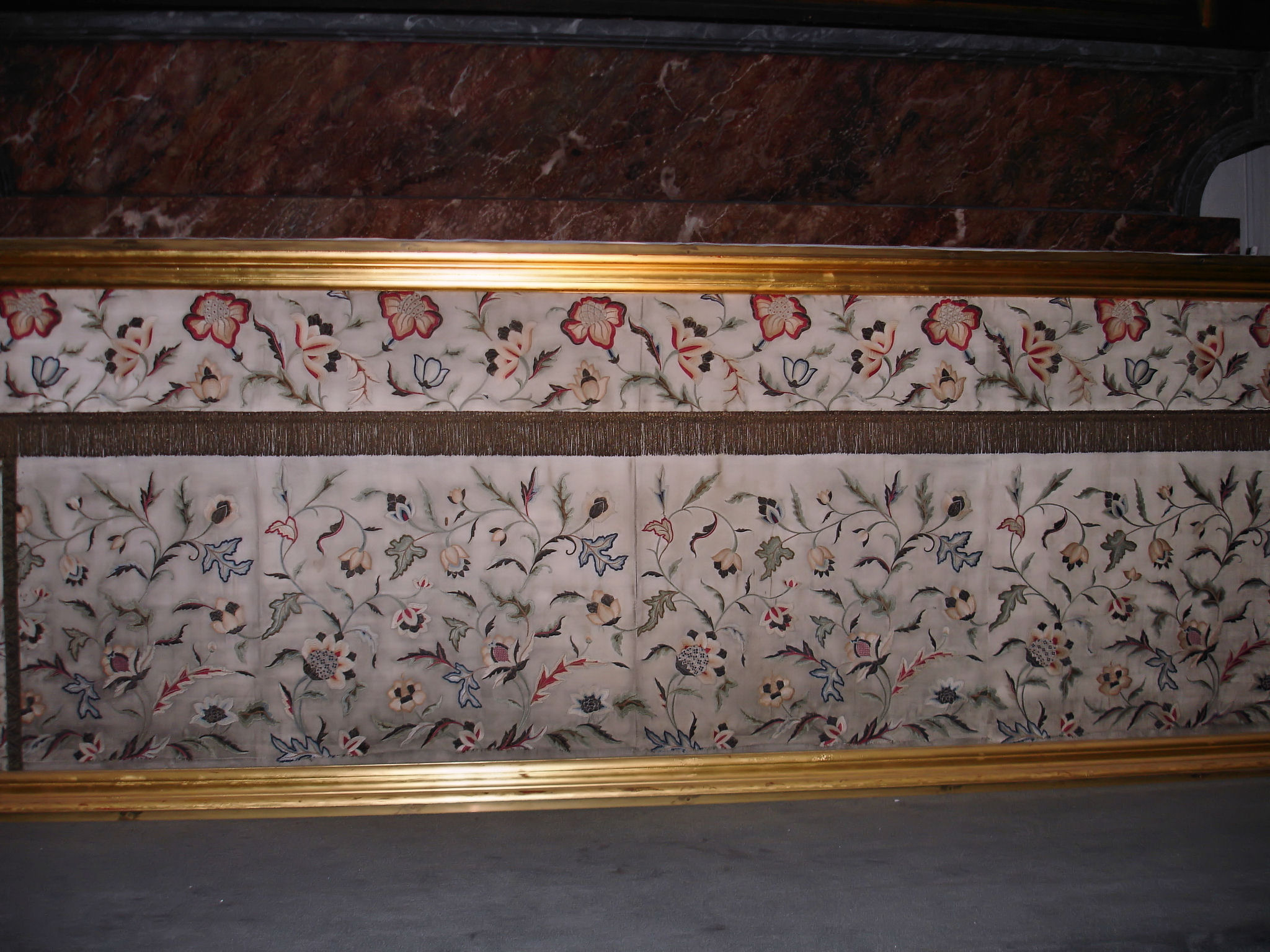 own picture taken, todayCarolus 19:19, 4 January 2007 (UTC) chnese silk emboidery, inv. 30.- 109 x 320 cm. Ensemble with chasuble.